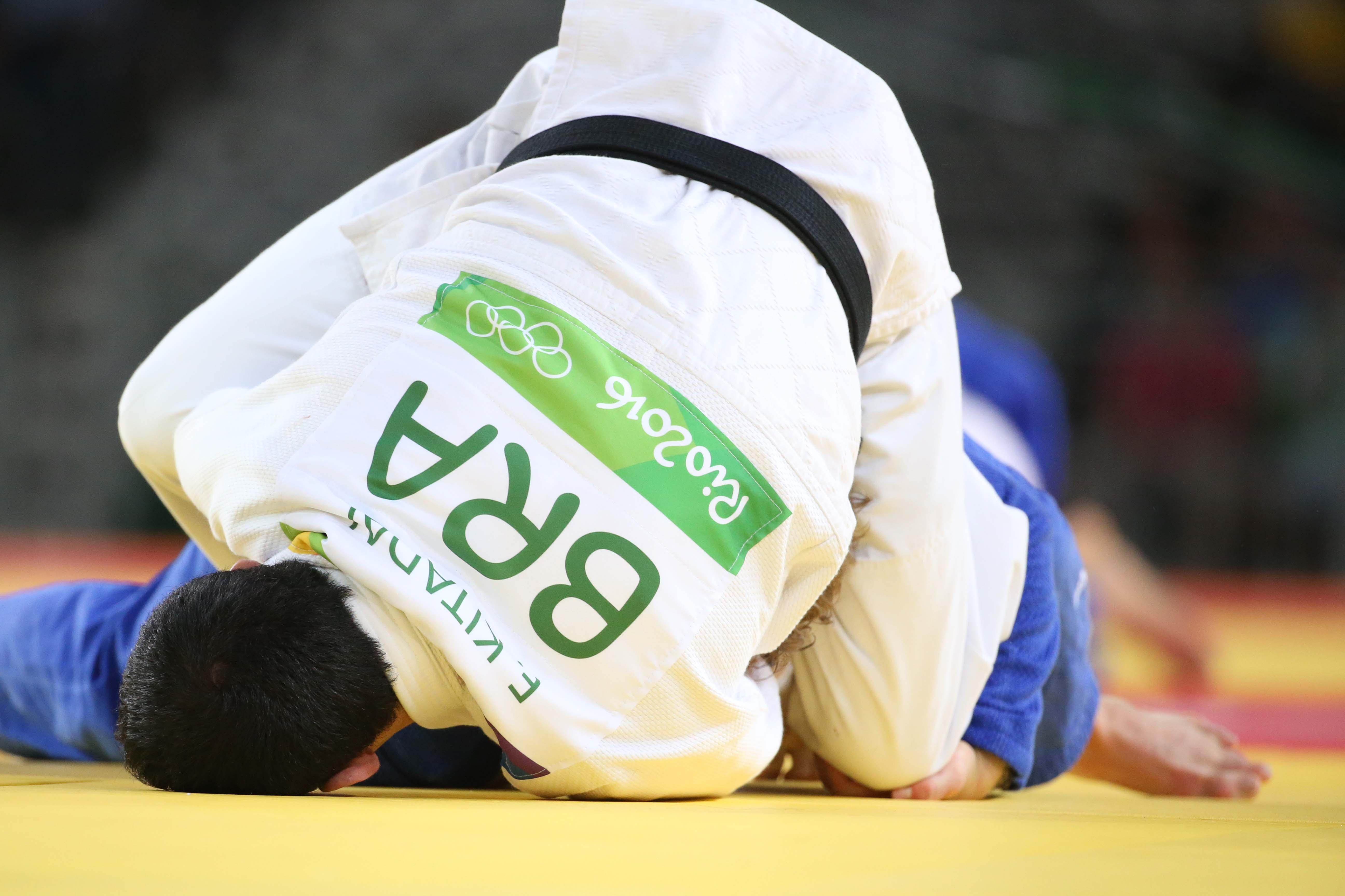 Competitions in judo at the 2016 Olympics